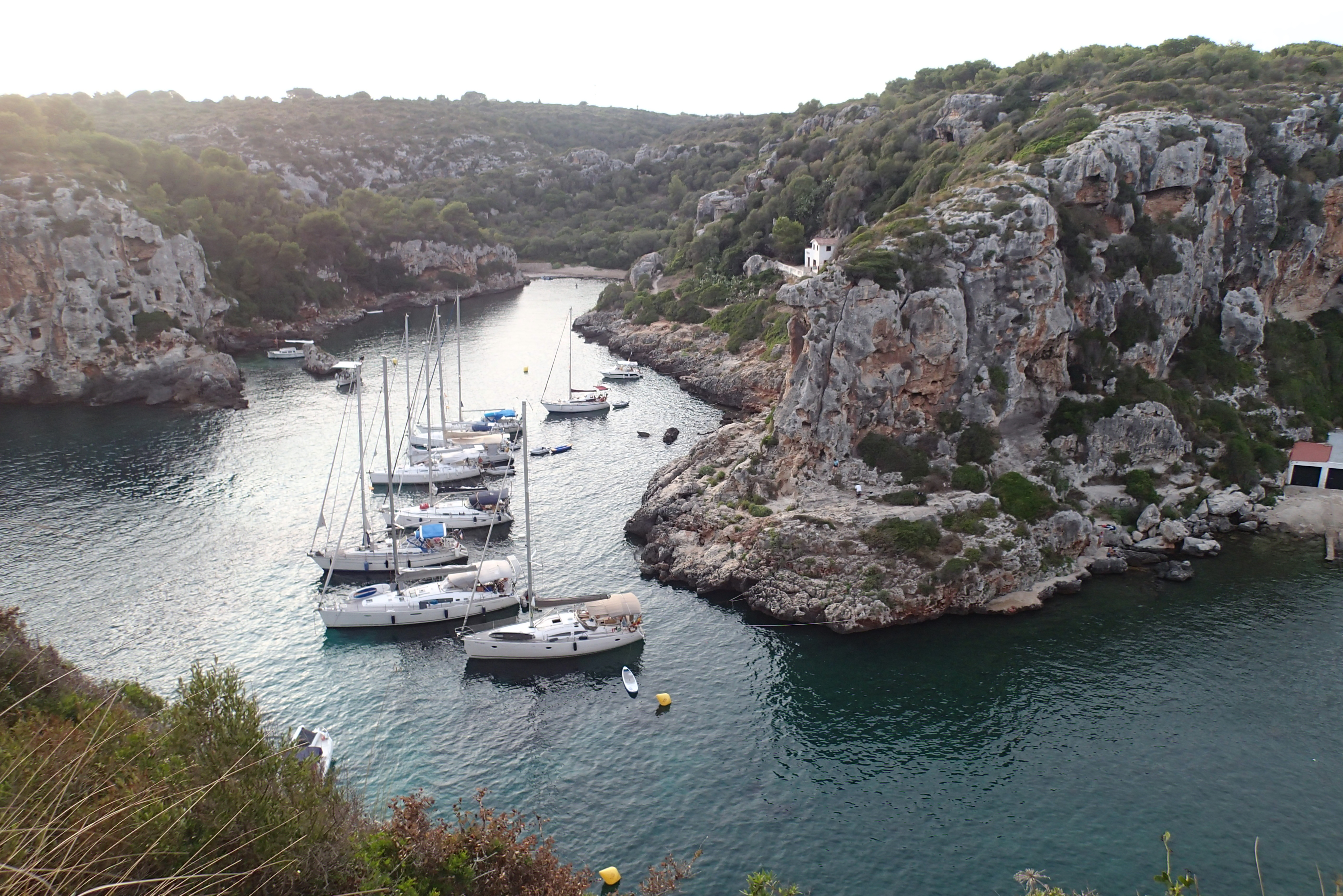 You can see several boats moored to the rock.